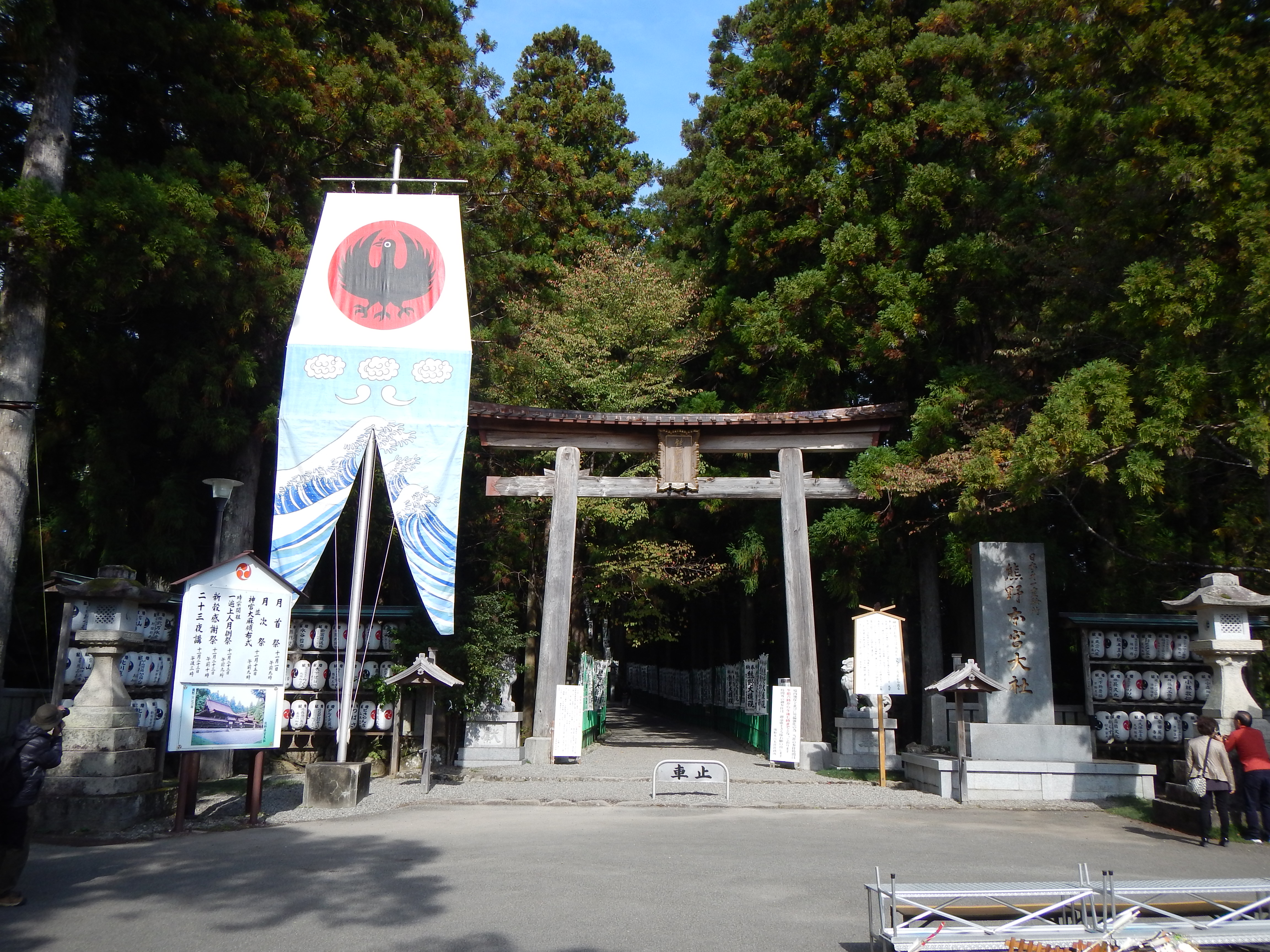 Kumano Kodo Kumano Hongu Taisha World heritage 熊野本宮大社